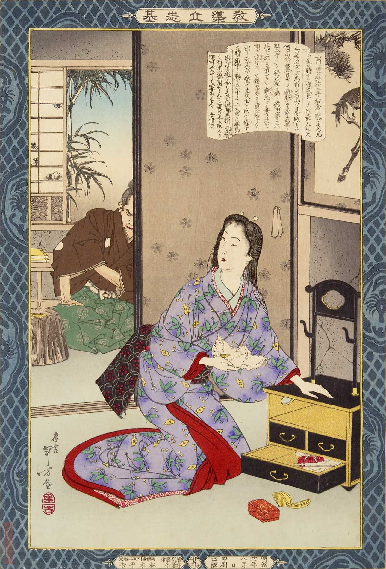 Yamanouchi Kazutoyo's wife, from the series Instruction in the Fundamentals of Success, Woodblock print